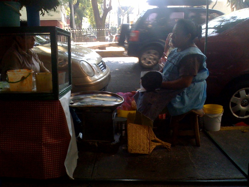 This is a person that prepares the "tlacoyos", she prepares it by hand and then cooks it in an comal heated by a anafre